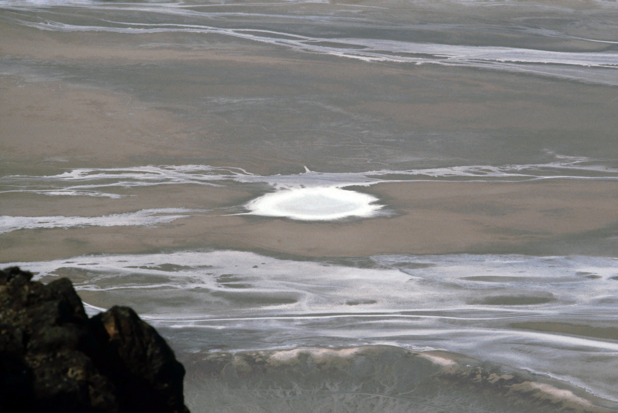 Death Valley,Dante's View,salt deposit